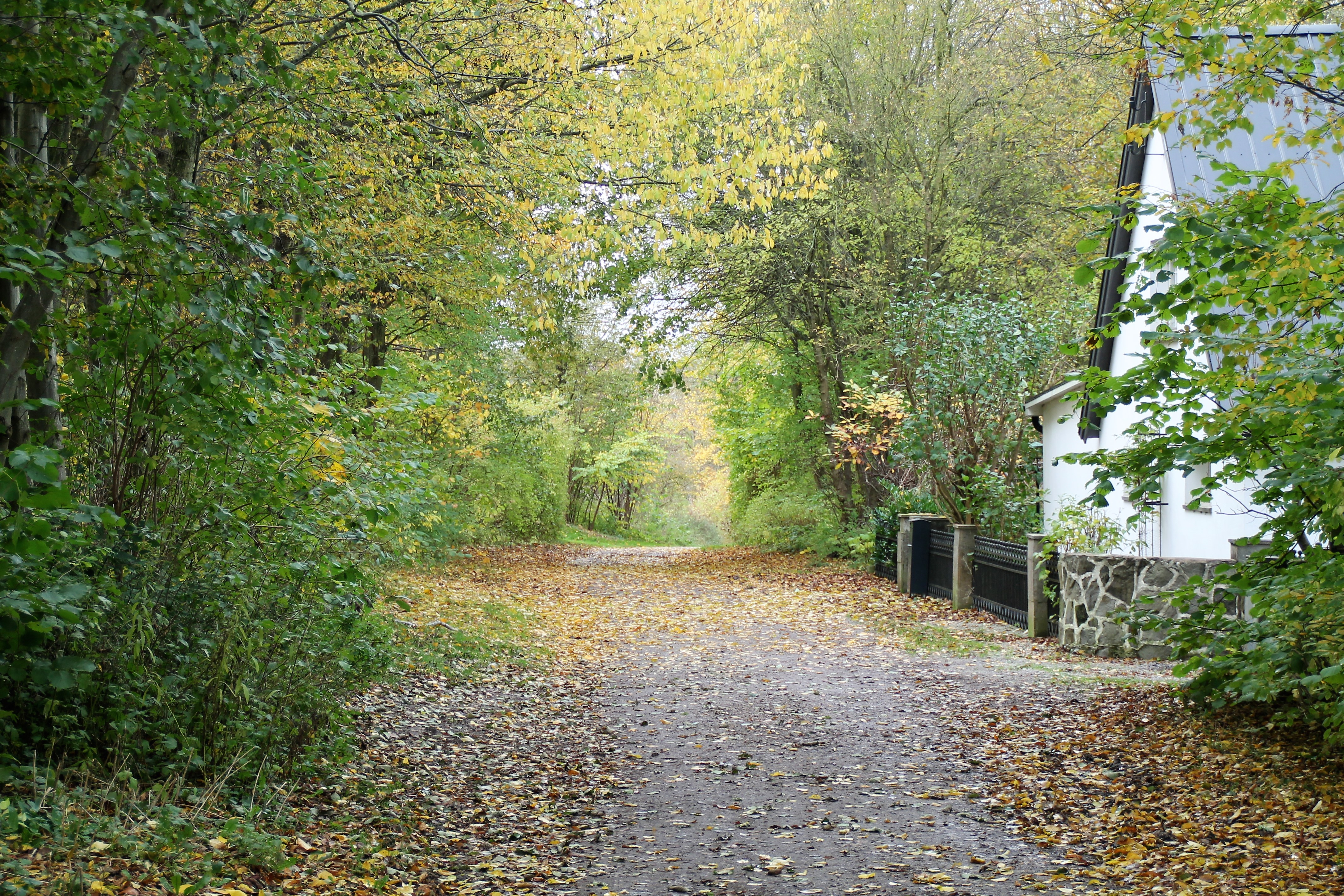 Former main street through the village of Källby, that was leveled to the ground in the 1960s by Lund municipality. On the right side, the last remaining house from that village, that Lund municipality could not get hold of.